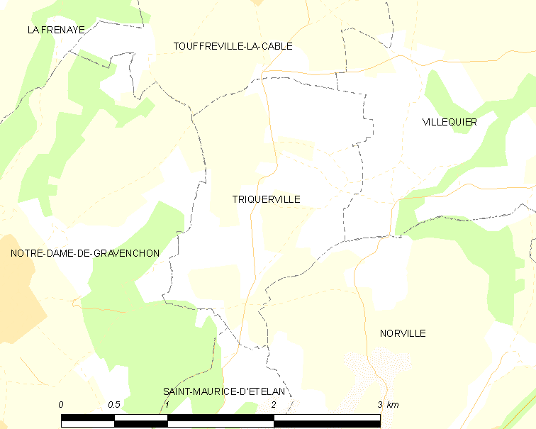 Map of French municipality Triquerville